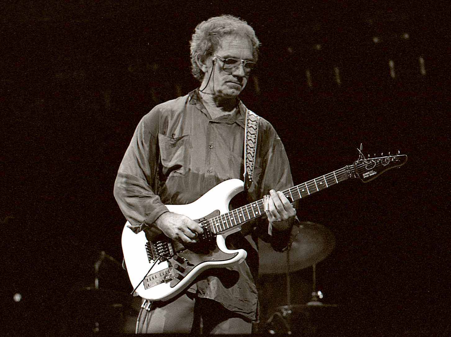 J.J. Cale playing the blues